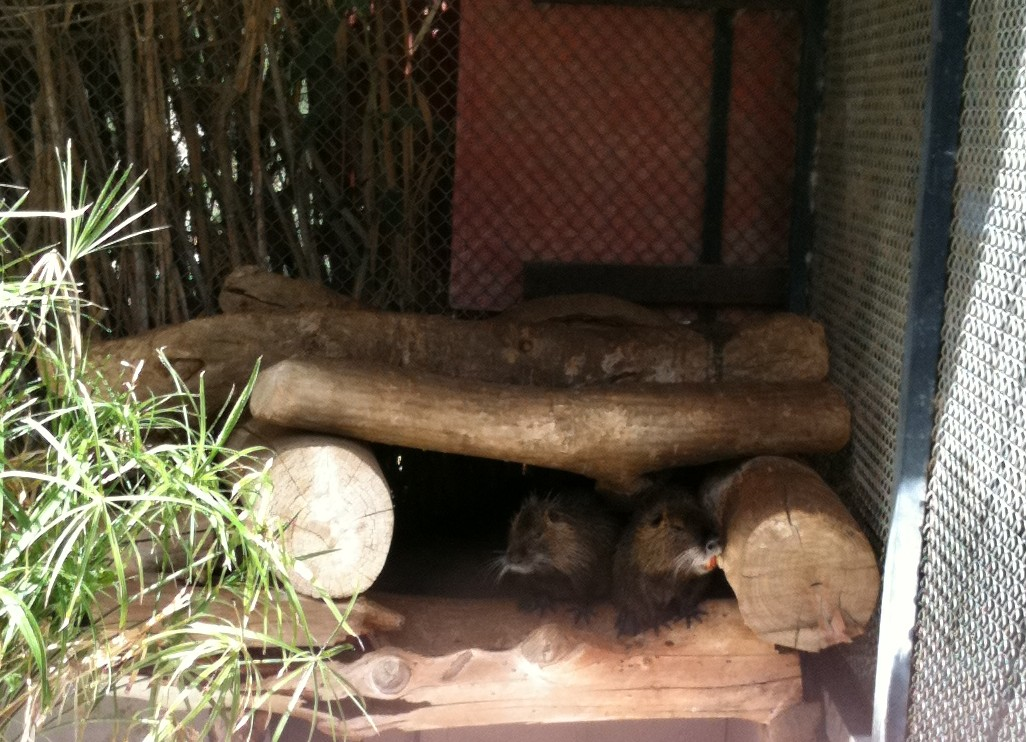 Negev Zoo Beersheva Israel